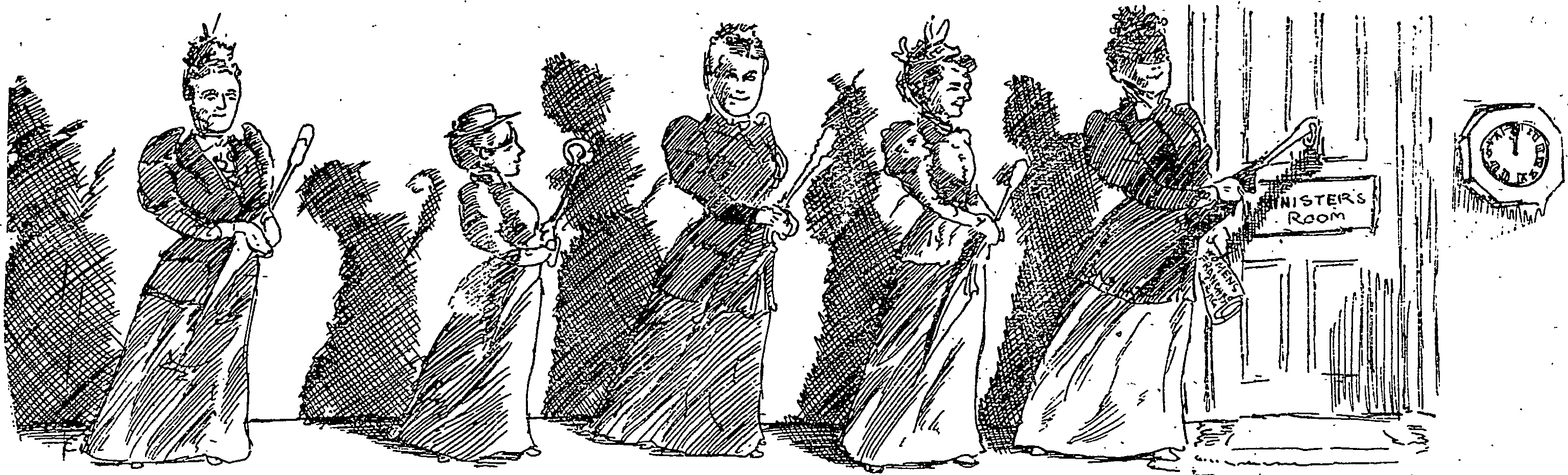 Illustration in the New Zealand newspaper 'The Observer' Volume XI, Issue 756, 24 June 1893. Captioned "The Auckland Female Franchise League comes smilingly up to the scratch to interview the. Premier on the subject of the rights of women. The League is chirpy."